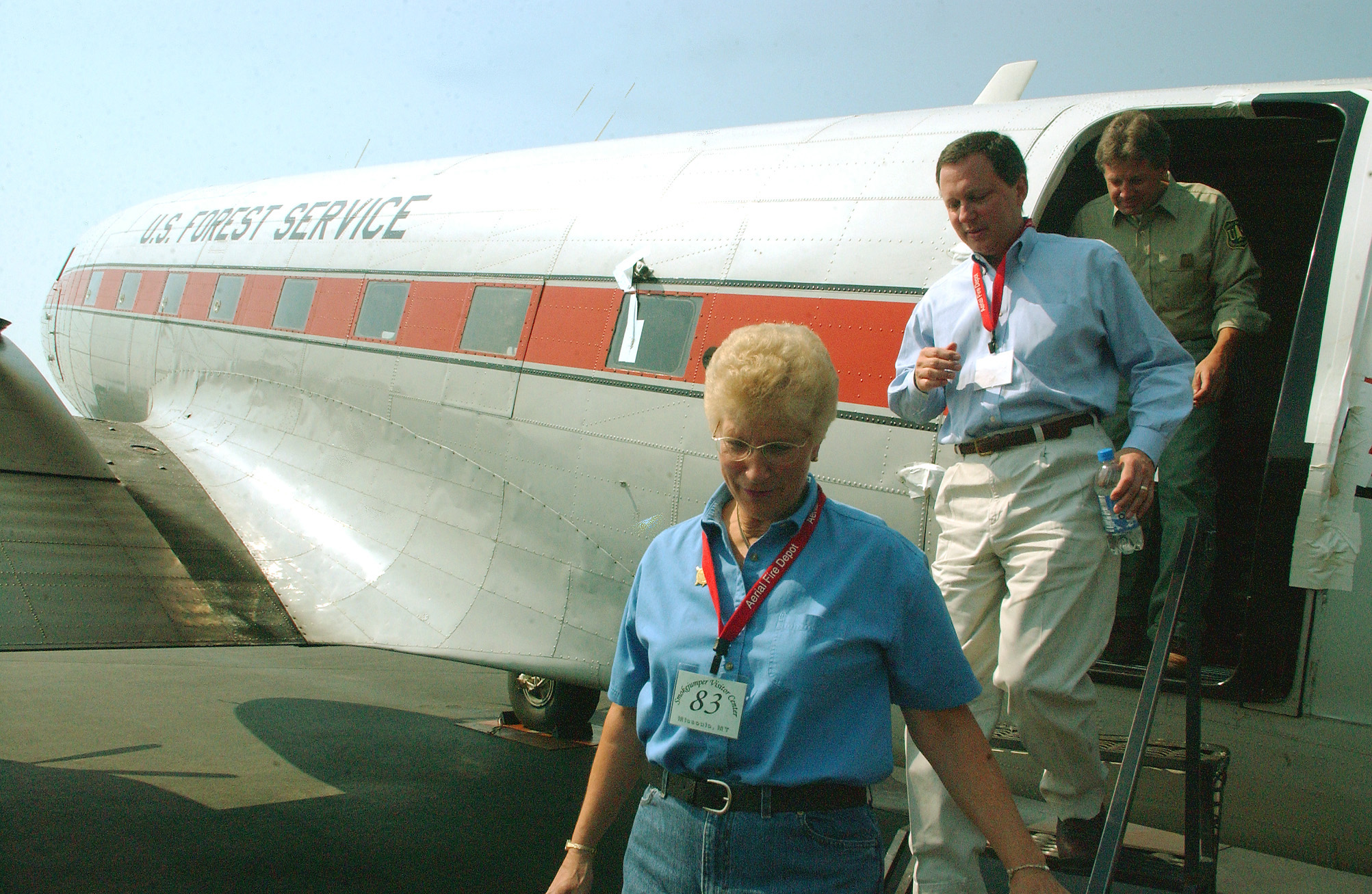 Missoula, MT, September 2, 2003 -- Montana Governor, Judy Martz, FEMA Director, Michael Brown and Forest Service representative, Bob Beckley tour the smoke jumper plane at the smoke jumper facility in Missoula. Photo by Andrea Booher/FEMA News Photo